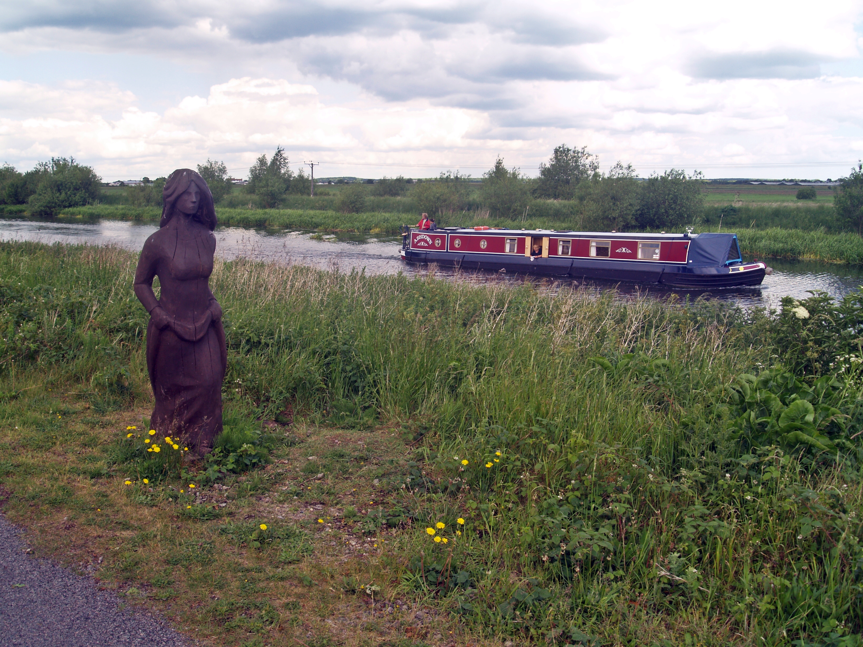 Barge